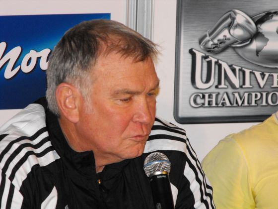 Box coach Fritz Sdunek